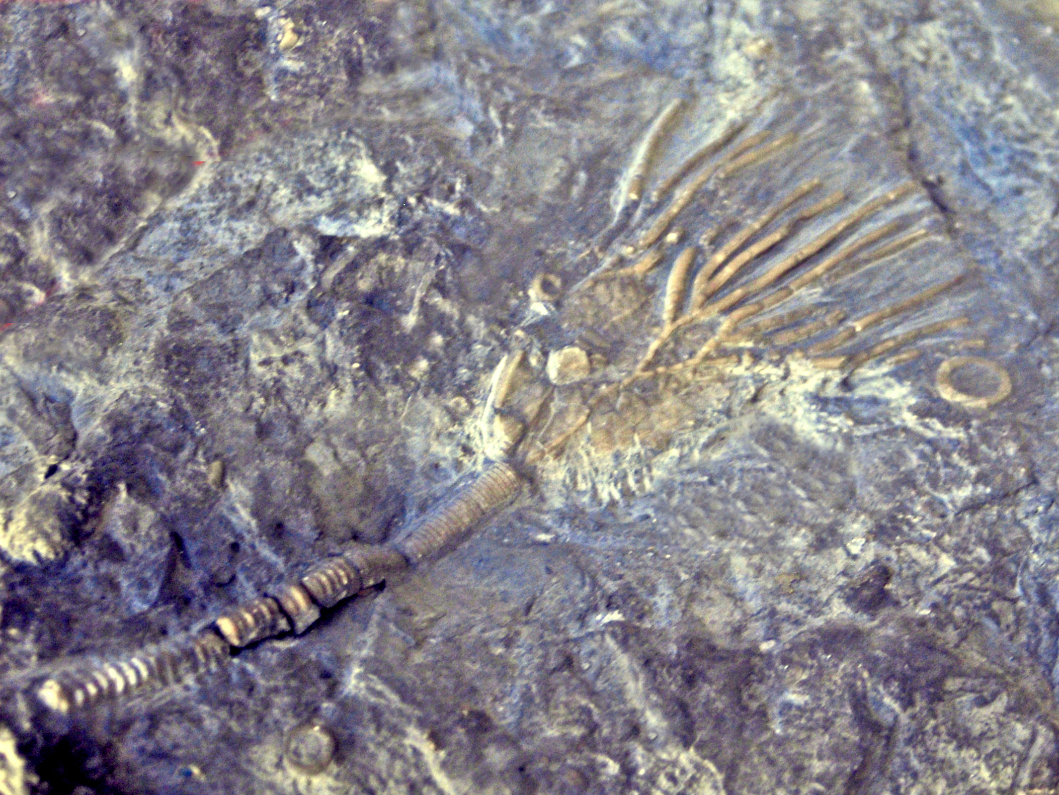 Fossil specimen of Periechocrinus costatus from the United Kingdom, on display at Gallery of Paleontology and Comparative Anatomy, Paris.